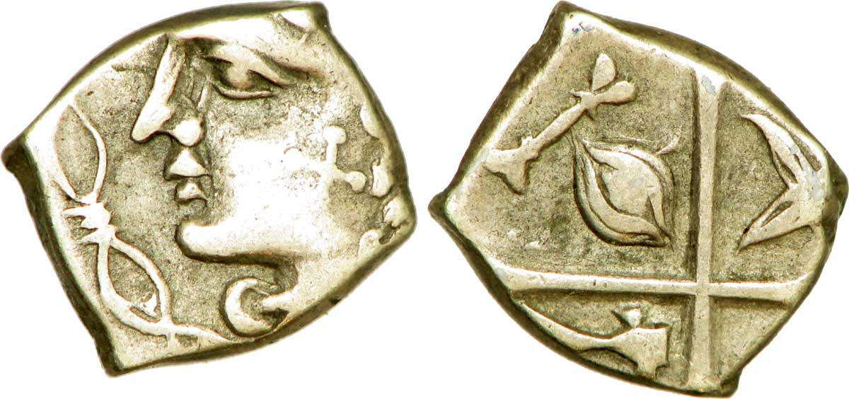 Drachme “au style flamboyant frappé par les Pétrocores Date : c. 121-52 AC.